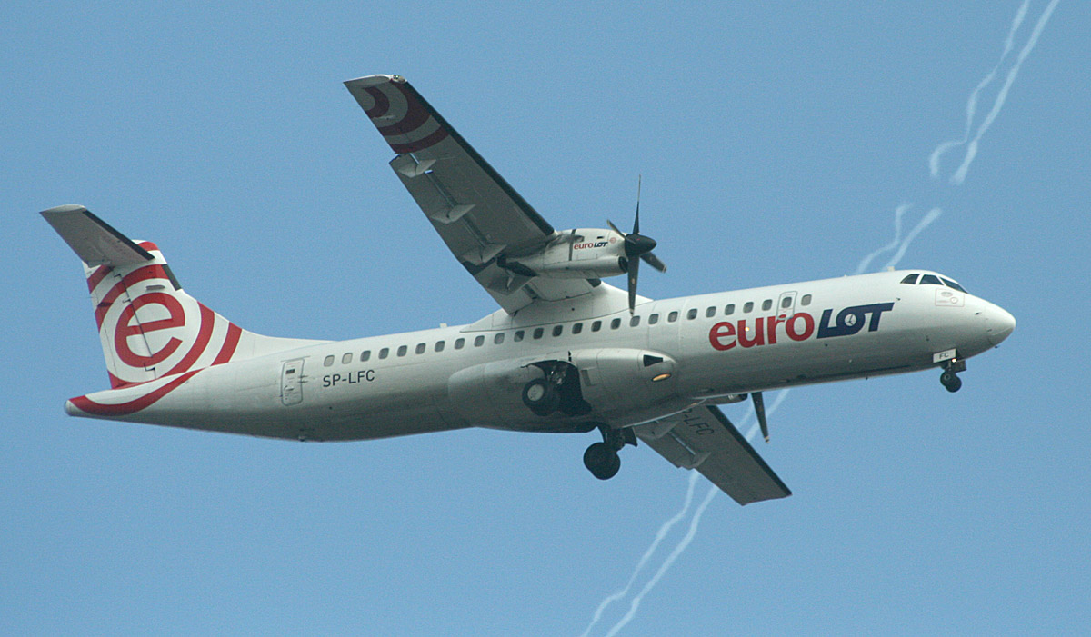 EuroLOT ATR-72-202 (SP-LFC) landing at Vilnius International Airport VNO